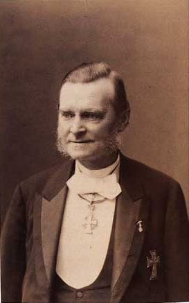 Ludvig Frederik Henrik Brockenhuus-Schack (1825-1906), Danish count, district officer, and politician, MP